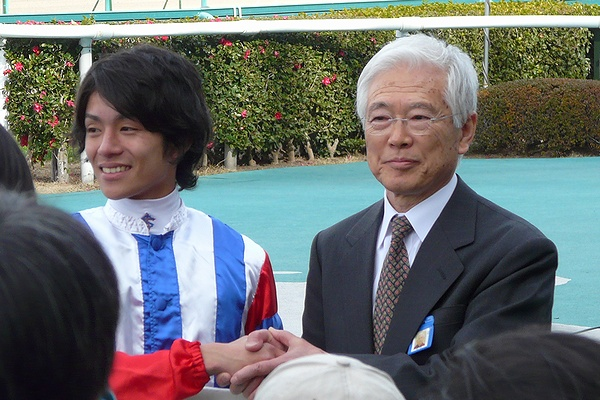 Masahiro-Sakaguchi20110227